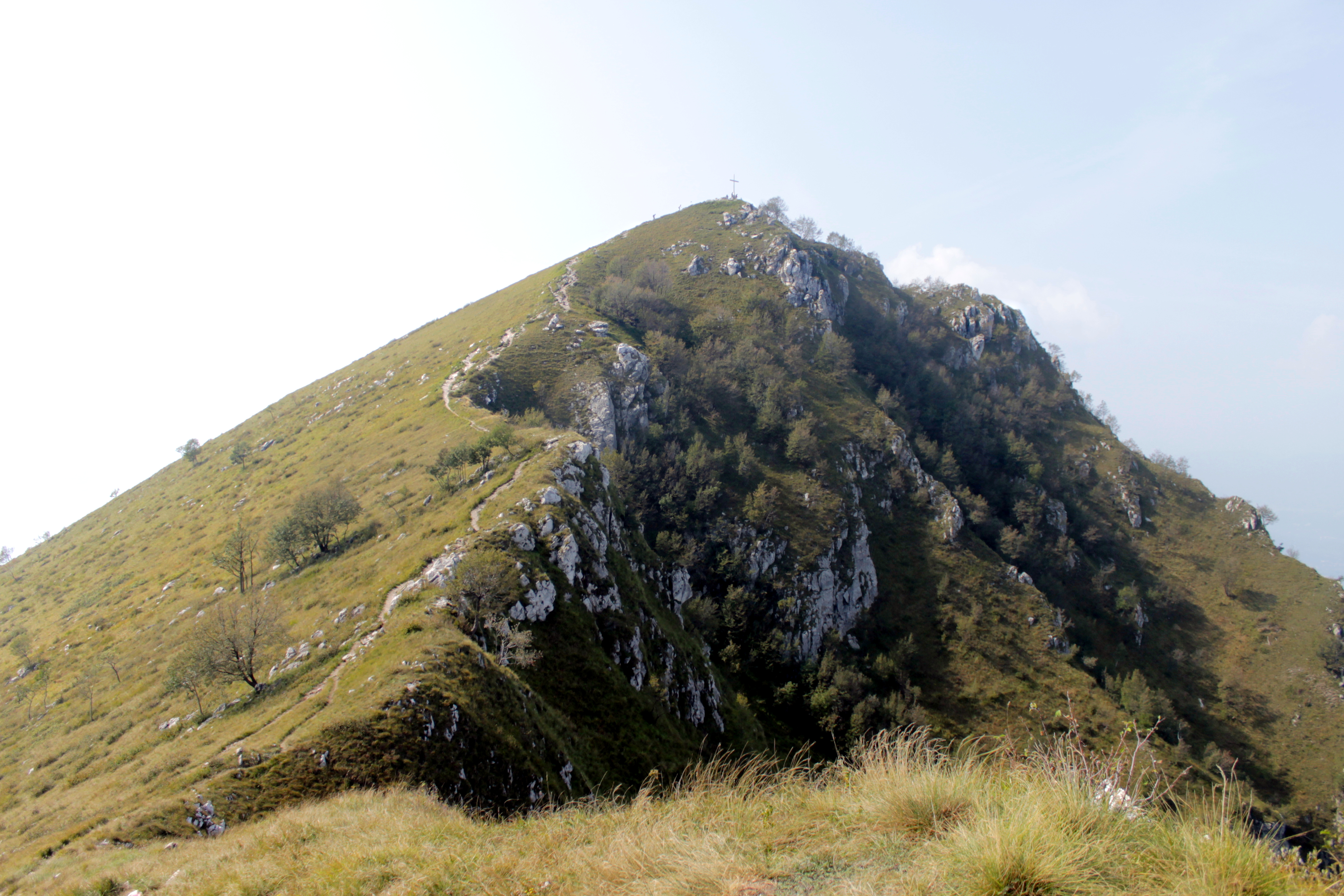 Corna Trentapassi (BS, Italy) as seen from its foresummit